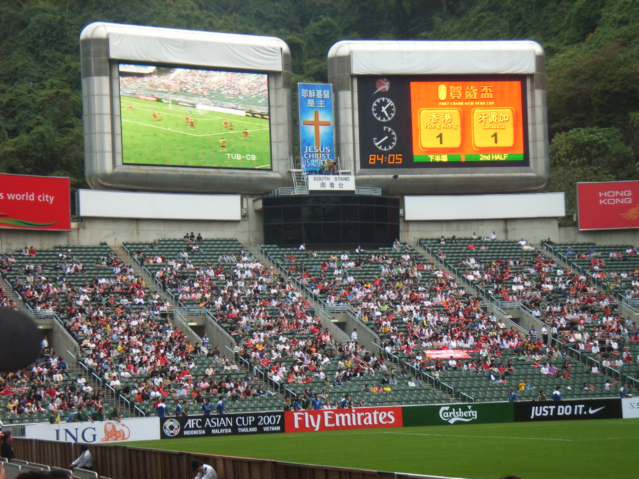 賀歲盃足球賽, Carlsberg Cup, 2007 Lunar New Year Cup. Photo author is me.